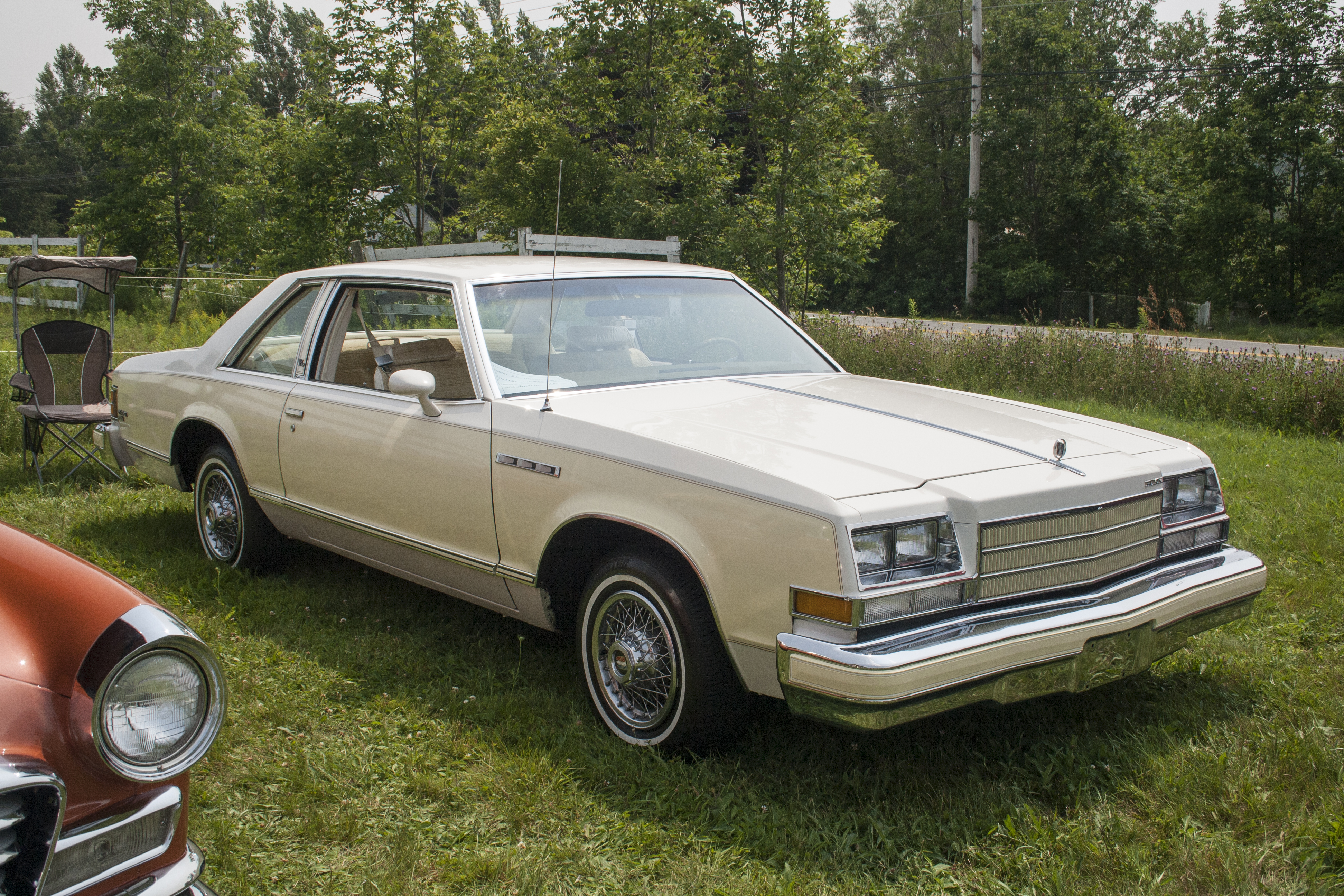 1979 Buick LeSabre Coupe